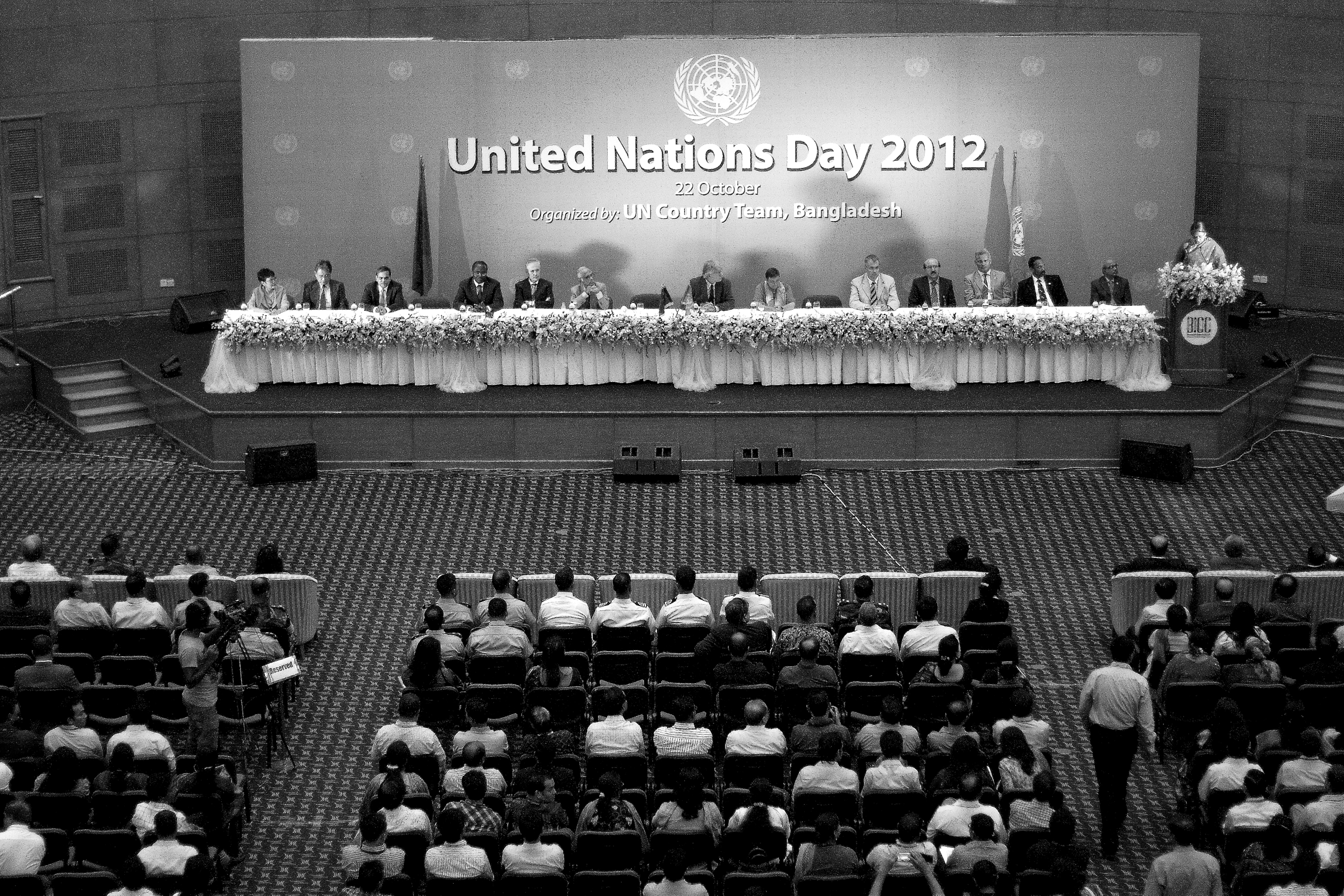 United Nations Day 2012, Dhaka, Bangladesh